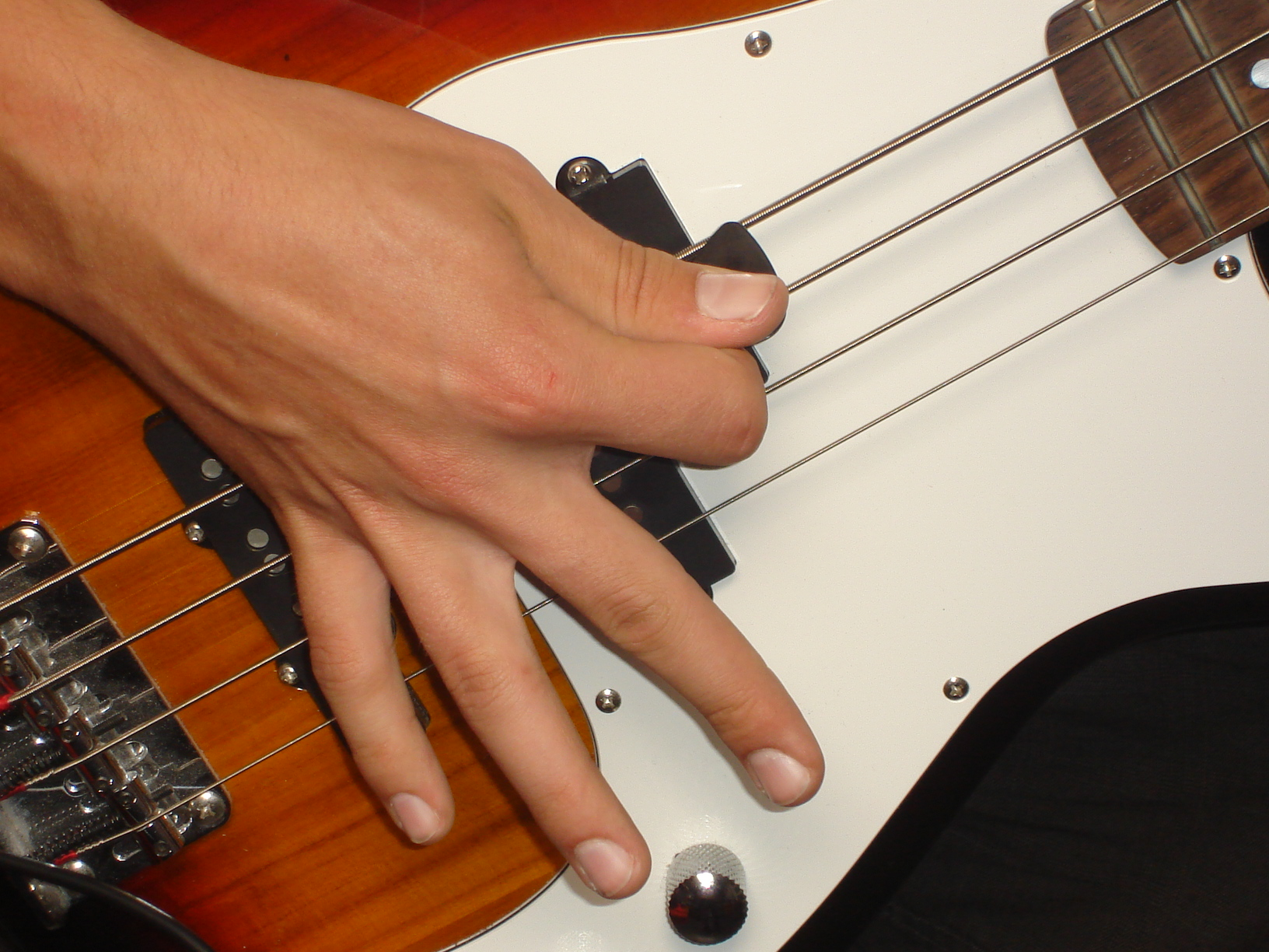 playing on a bass guitar with a pick